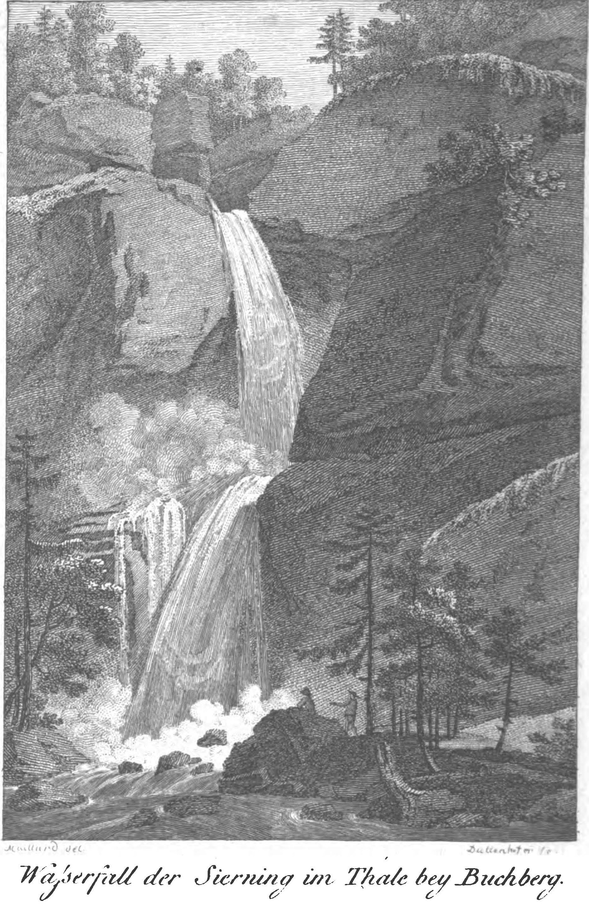 Christian Friedrich Traugott Duttenhofer: Fall of the Sierning, 1807.